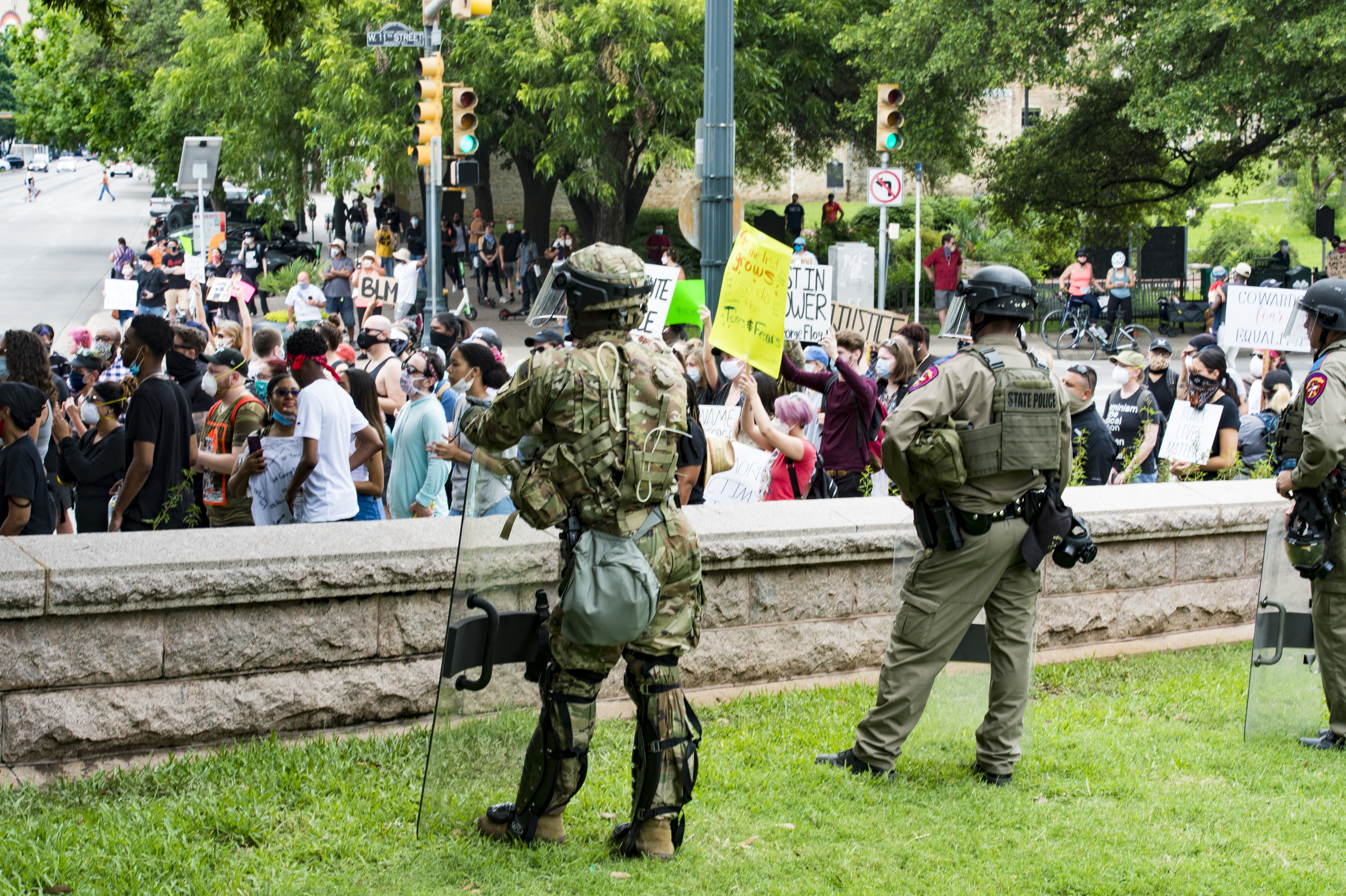 Military police Soldiers attached to the Texas Army National Guard's 136th Maneuver Enhancement Brigade support local law enforcement during a protest in Austin, Texas, on May 31, 2020. On May 30, 2020, Governor Greg Abbott activated elements of the Texas National Guard to augment law enforcement throughout the state in response to civil unrest. The Texas National Guard will be used to support local law enforcement and protect critical infrastructure necessary to the well-being of local communities. (U.S. Army photo by Charles E. Spirtos)